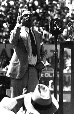 Rómulo Betancourt in 1936.